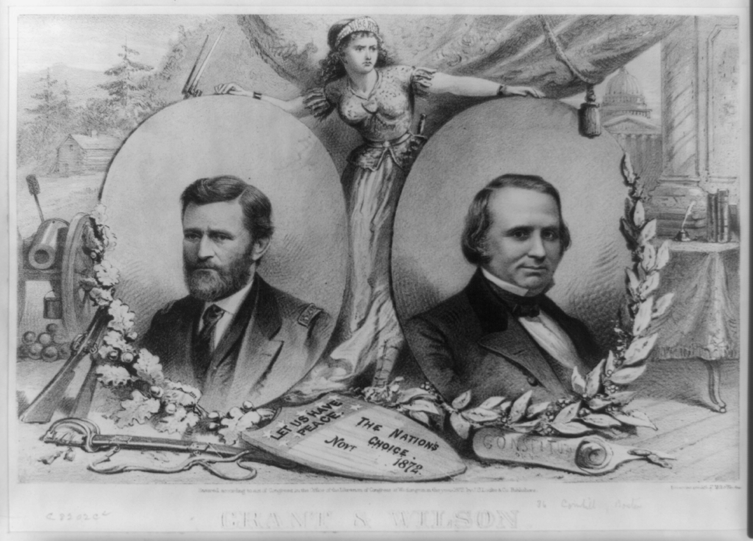 Print shows a campaign banner for the 1872 Republican national ticket. The armored figure of Liberty stands between portraits of presidential candidate Ulysses S. Grant and running mate Henry Wilson. Grant's portrait is adorned with oak leaves and Wilson's with olive or laurel branches. On the left are military paraphernalia associated with Grant--rifles, a cannon, and a sword. Beyond is a log cabin. On the right are a writing desk and the Constitution. In the distance is a view of the U.S. Capitol. Below, before the two portraits, is a shield inscribed "Let Us Have Peace. The Nation's Choice. Novr. 1872." "Let us have peace" were the closing words in Grant's May 29, 1868, letter accepting his first presidential nomination. The phrase became a Republican slogan for both the 1868 and 1872 elections.